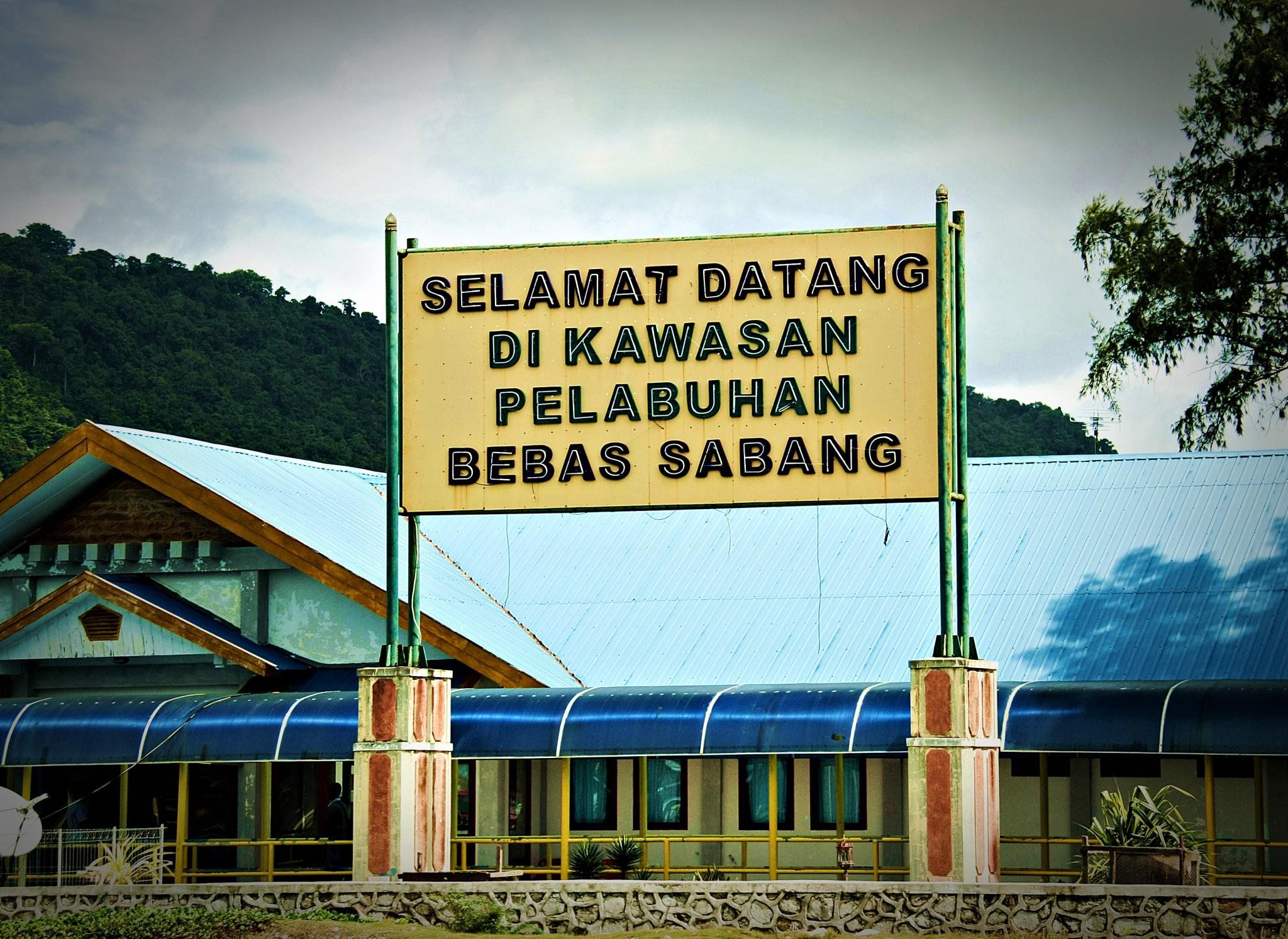 Papan informasi "Selamat datang di Kawasan Pelabuhan Bebas Sabang".